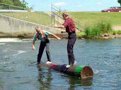 Two flannel-clad lumberjacks demonstrate their skills at balancing on a floating log in the Pine River during Scheer's Lumberjack Show. Location: Minnesota, USA